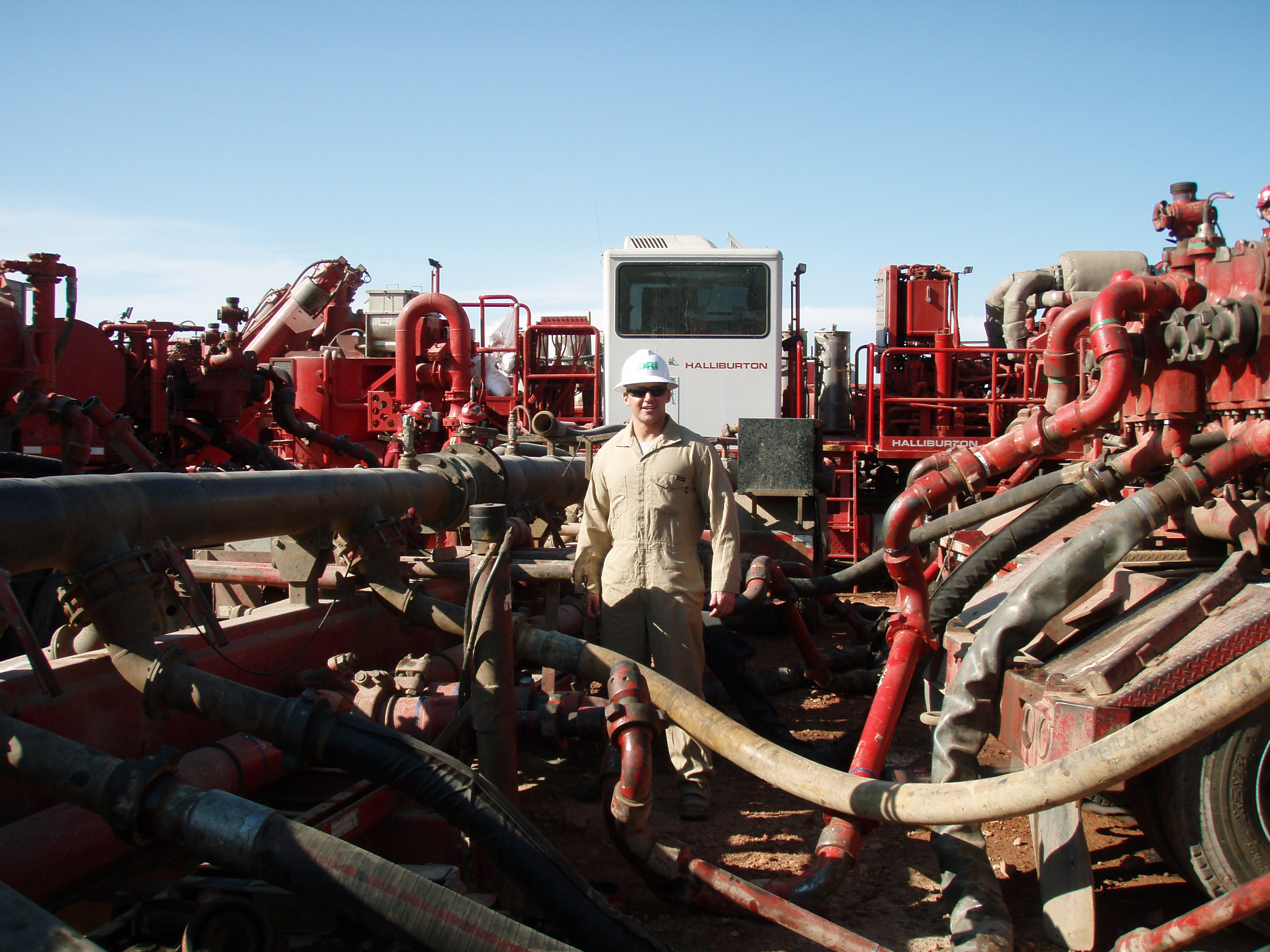 Process of mixing water with fracking fluids to be injected into the ground. A process known as Fracking